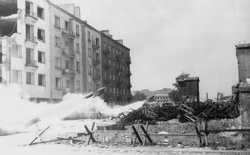 Warsaw Uprising: Fireing of 32-35 cm ammunition into Wurfgerät 42 "Nebelwerfer". Photo of 201st Stellungswerfer Regiment bombing Old Town and North Śródmieście district from Żelazna and Żytnia street intersection.